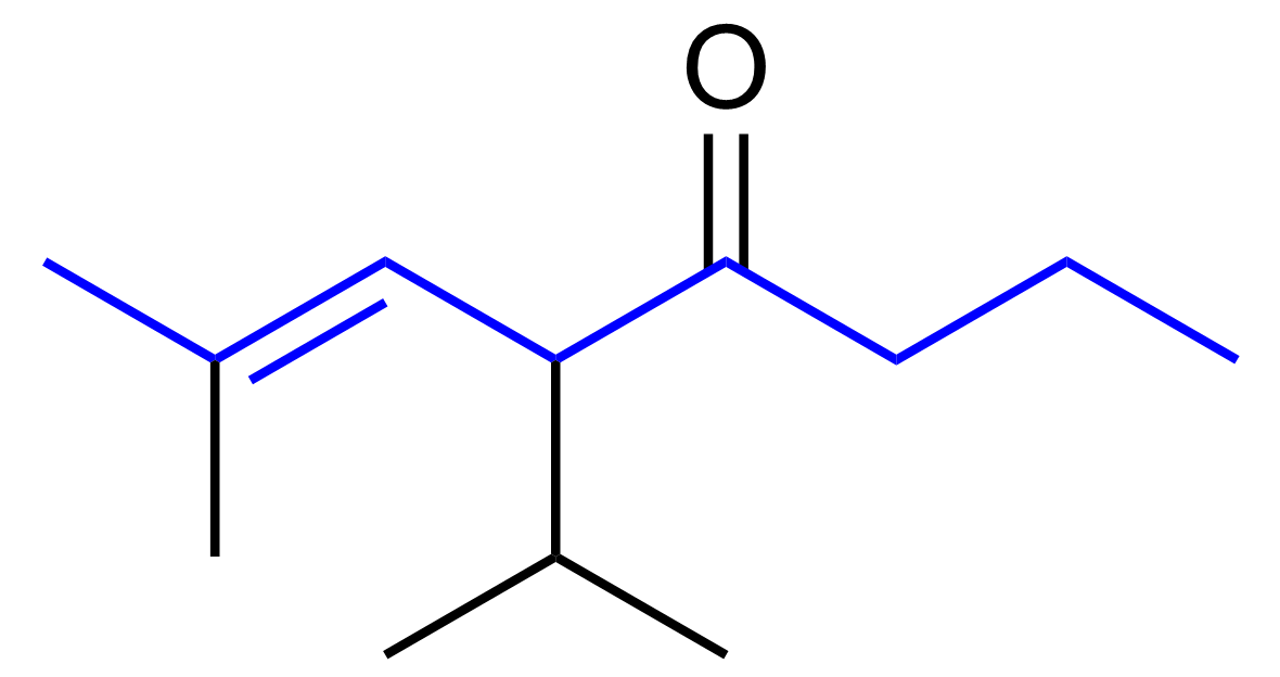 Indication of the main carbonchain in blue (5-isopropyl-7-methyloct-6-en-4-one)